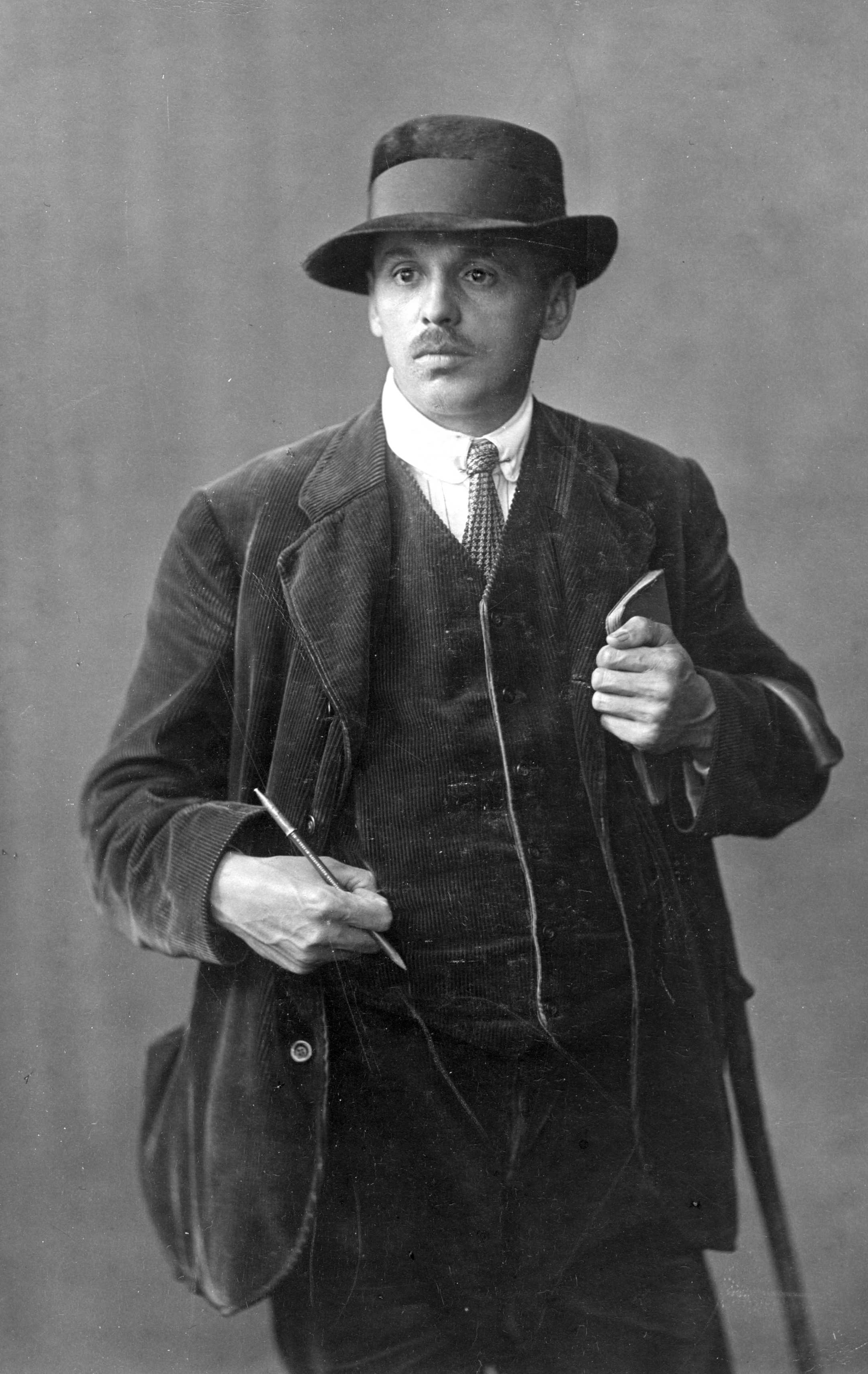 Fritz Kress (28. March 1884 in Tübingen-Lustnau - 1962 n Tübingen-Lustnau) founded and managed a school for carpenters in Lustnau.